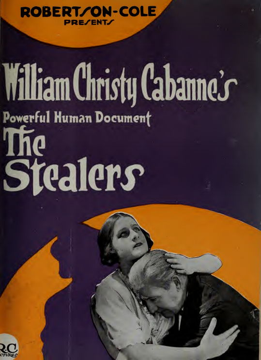 Advertisement for the film The Stealers (1920) directed by William Christy Cabanne.